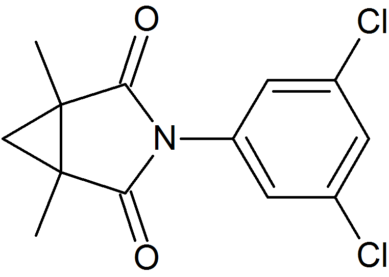 Procymidone